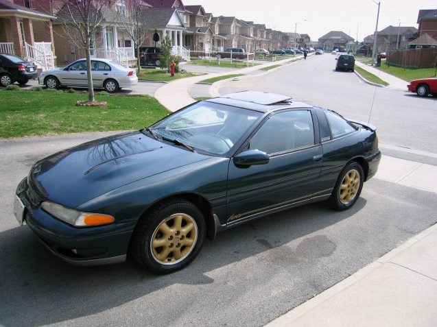 1993 Plymouth Laser RS with Gold Appearance package